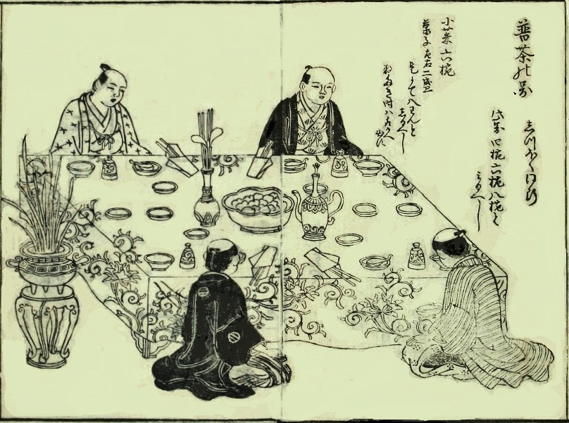 Fucha no zu, illustration of serving way in Fucha Ryori Sho, 1772